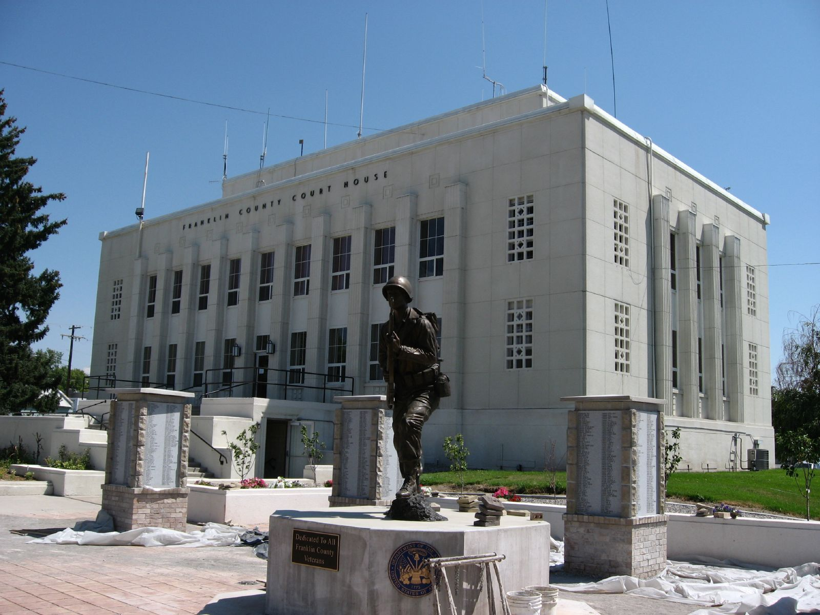 Franklin County Courthouse, Preston, Idaho. With war memorials under construction.